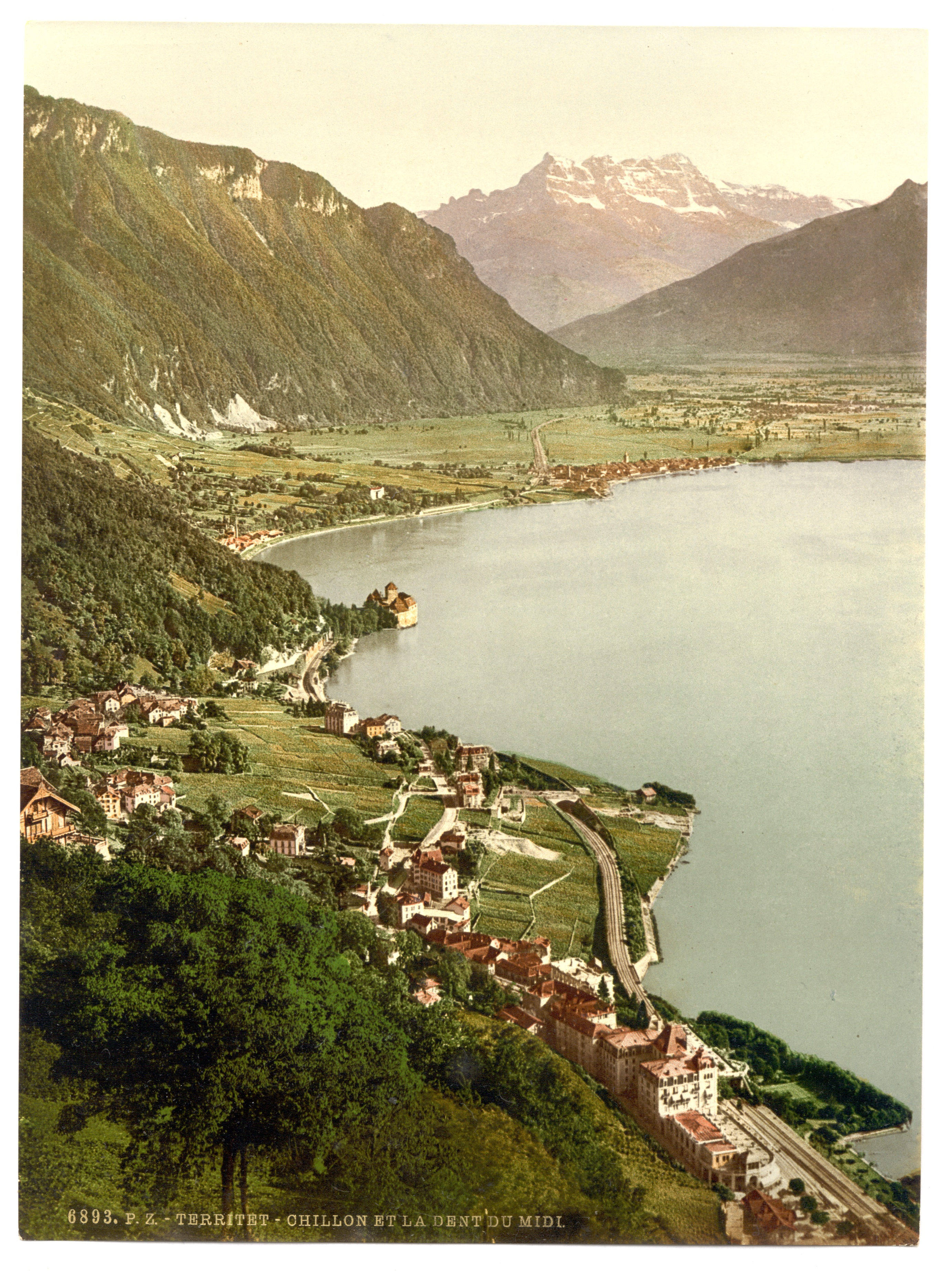 Forms part of: Views of Switzerland in the Photochrom print collection.; Title from the Detroit Publishing Co., Catalogue J-foreign section, Detroit, Mich. : Detroit Publishing Company, 1905.; Print no. "6893".